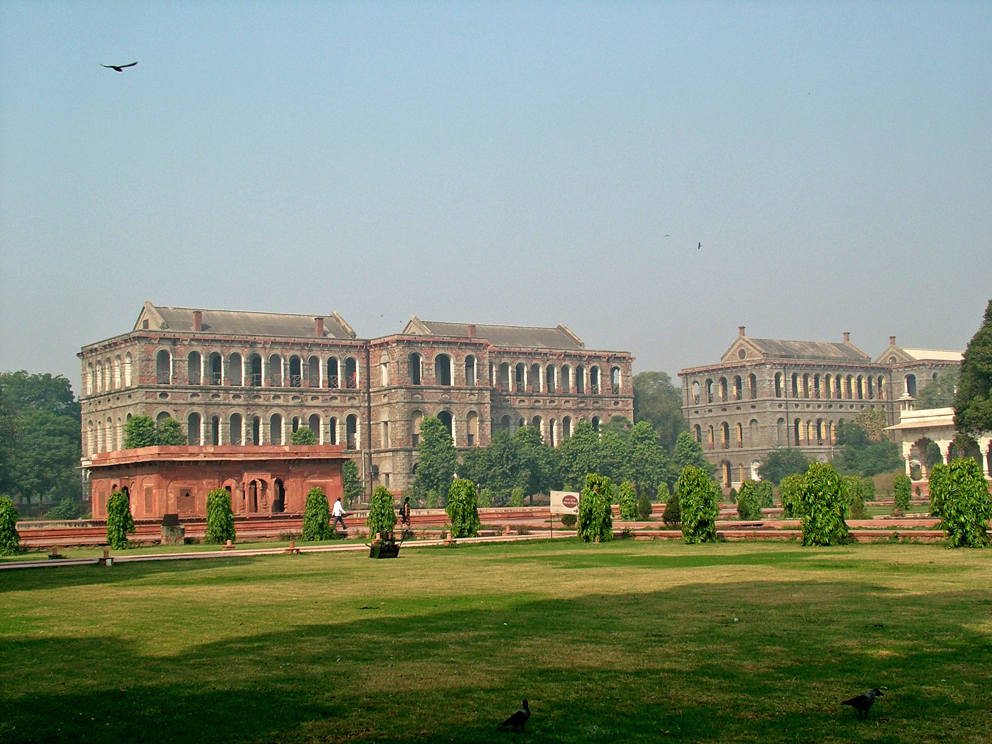 Red Fort